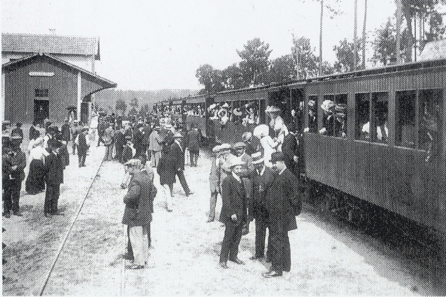 Inauguration ceremony of the Vouga Railway, at the Vila da Feira Station, in Portugal.